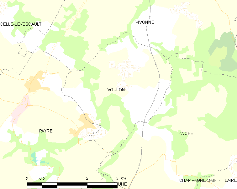 Map of French municipality Voulon